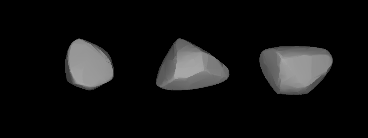 A three-dimensional model of 1518 Rovaniemi that was computed using light curve inversion techniques.